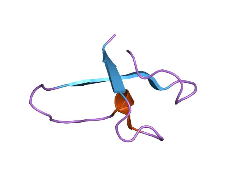 Cartoon representation of the molecular structure of protein registered with 1fre code.